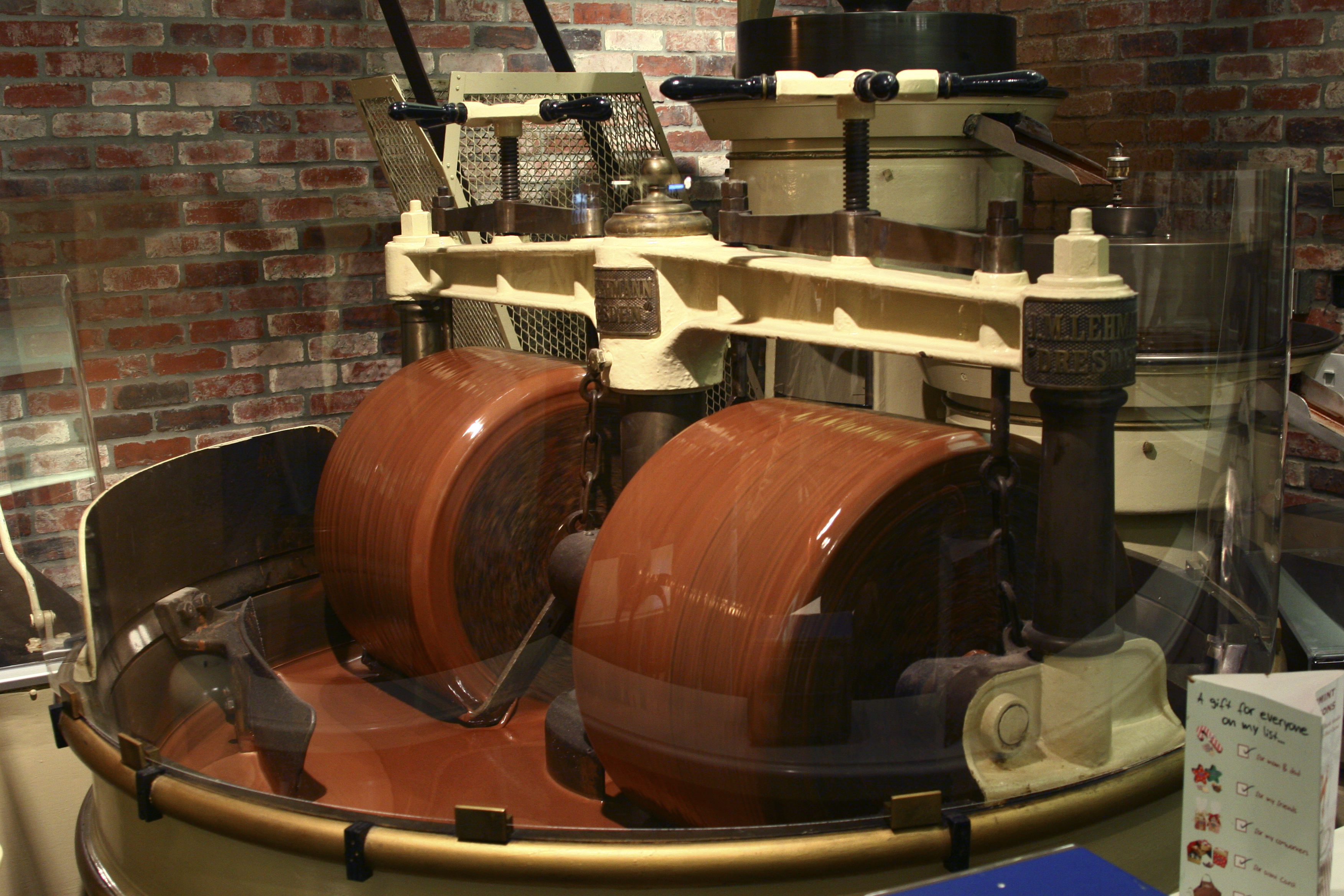 Melanger that mixes chocolate liquor with other ingredients like whole milk powder, sugar, vanilla and additional cocoa butter in varying amounts depending on the chocolate being made.